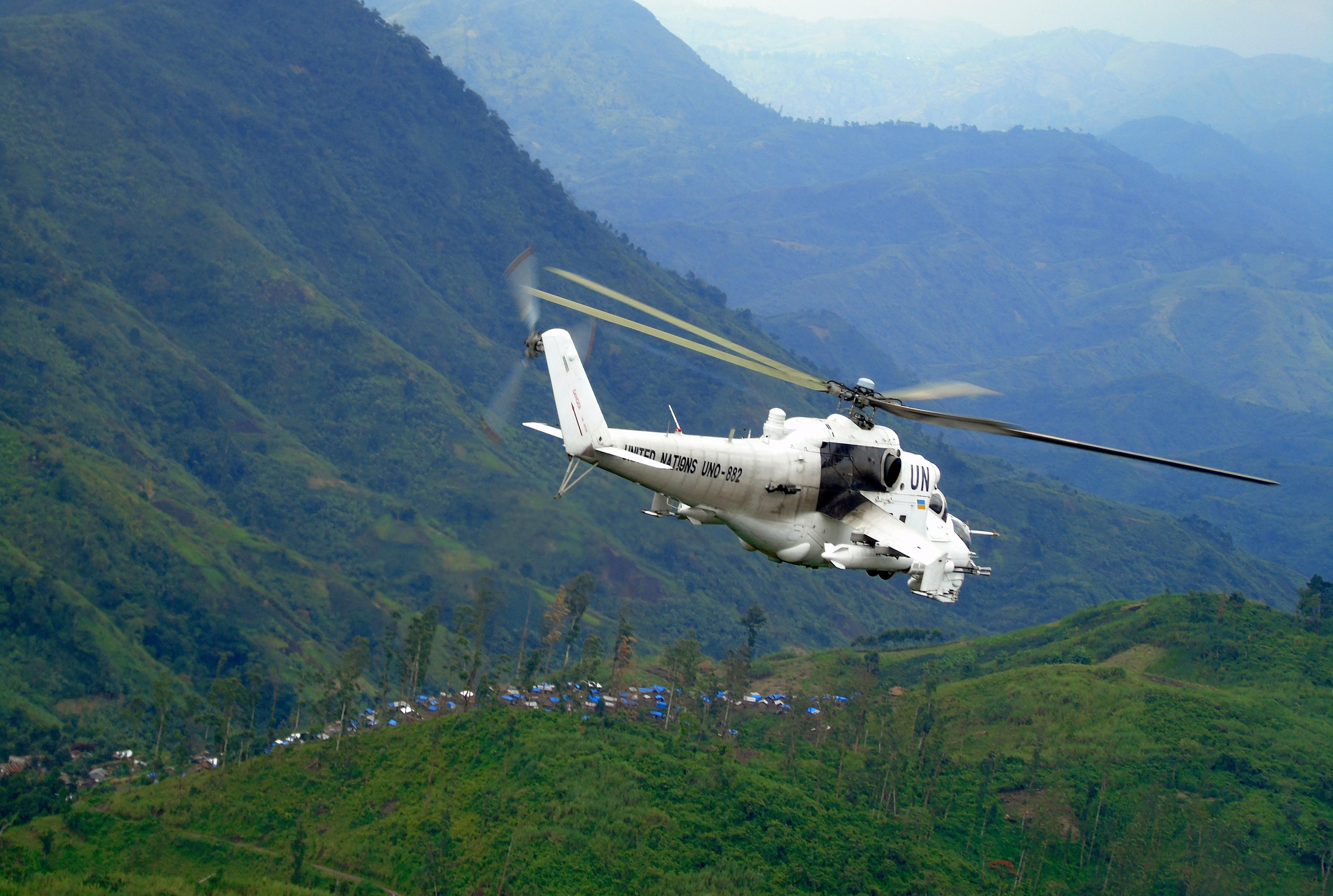 The crew of the Ukrainian Mi-24 during the tasks the United Nations Mission DR Congo: Flights to patrol, fire support of ground forces, armed support aircraft MONUSCO. Photo by Nazar Voloshyn